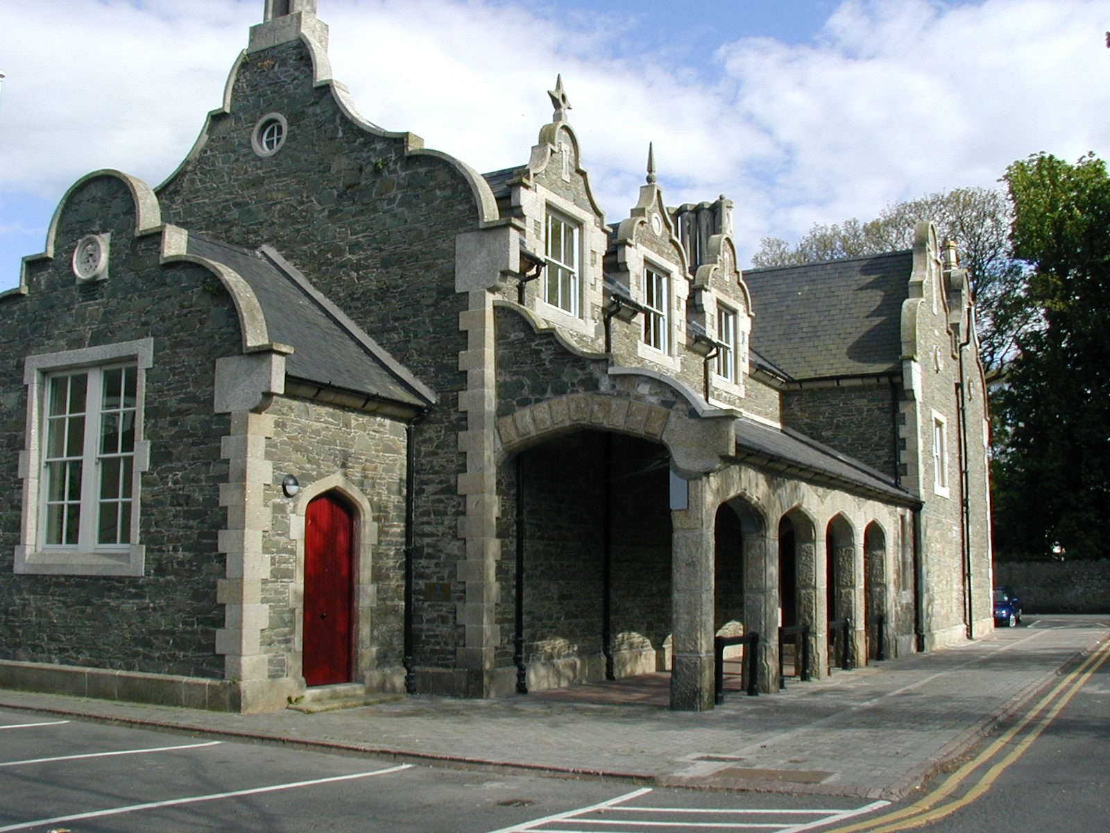 Court House, Athy, Co.Kildare, Ireland